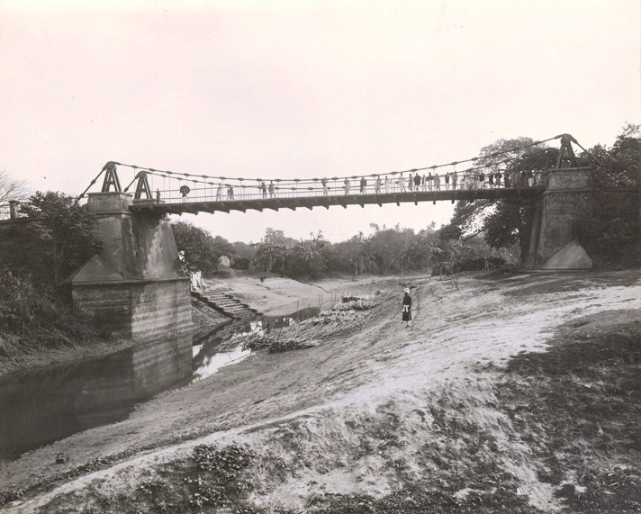 Photograph taken by Fritz Kapp in 1904 with a view of the iron suspension bridge over the Dulai Creek in Dacca (now Dhaka), part of an album of 30 prints from the Curzon Collection.